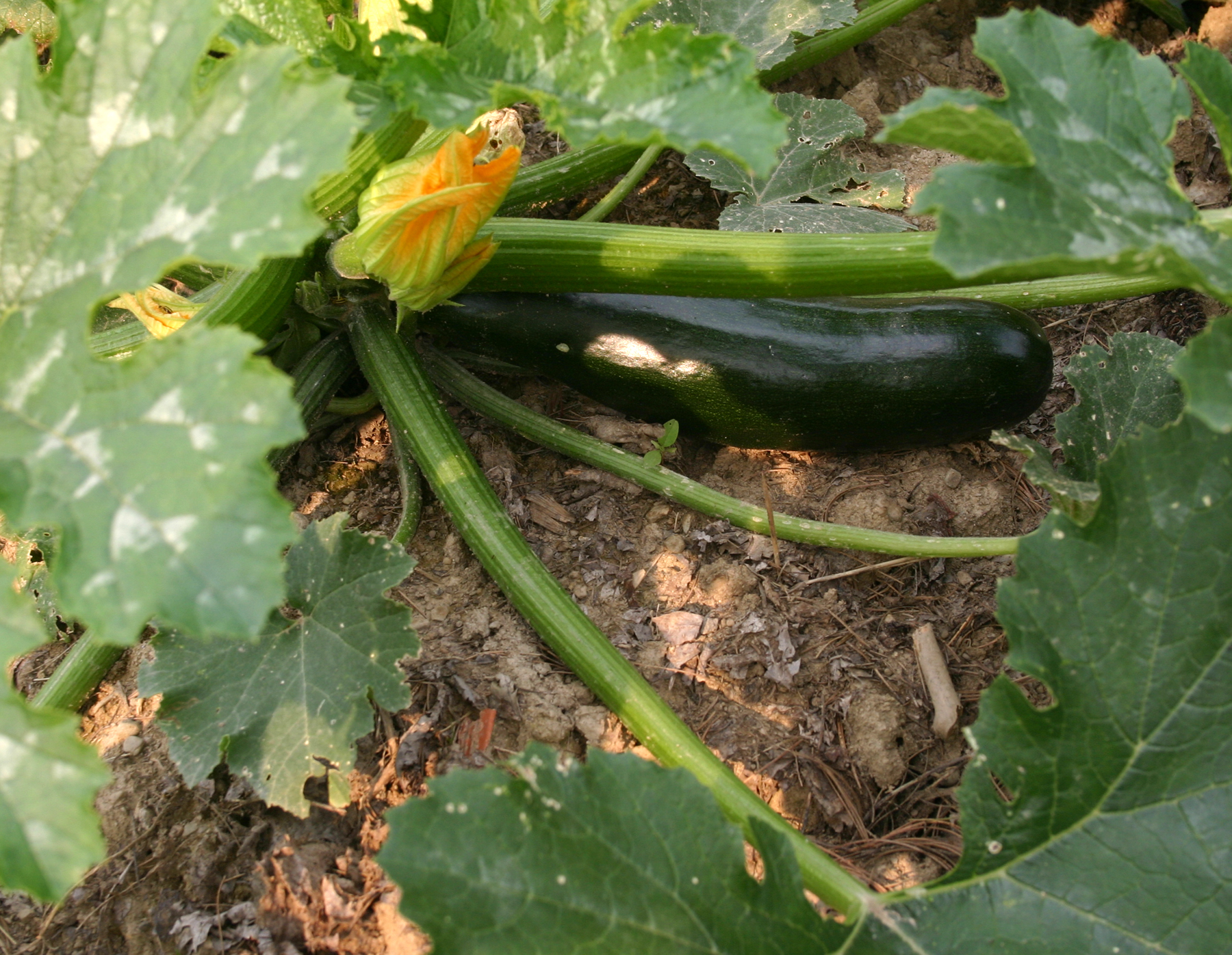 Zuchinni or corgette fruit and spent flower on plant